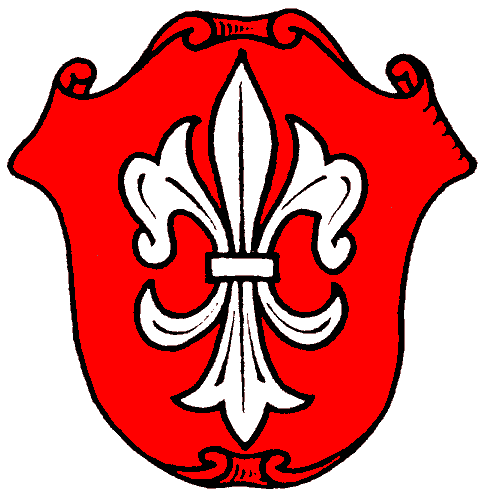 Coat of Arms of Oberpleichfeld